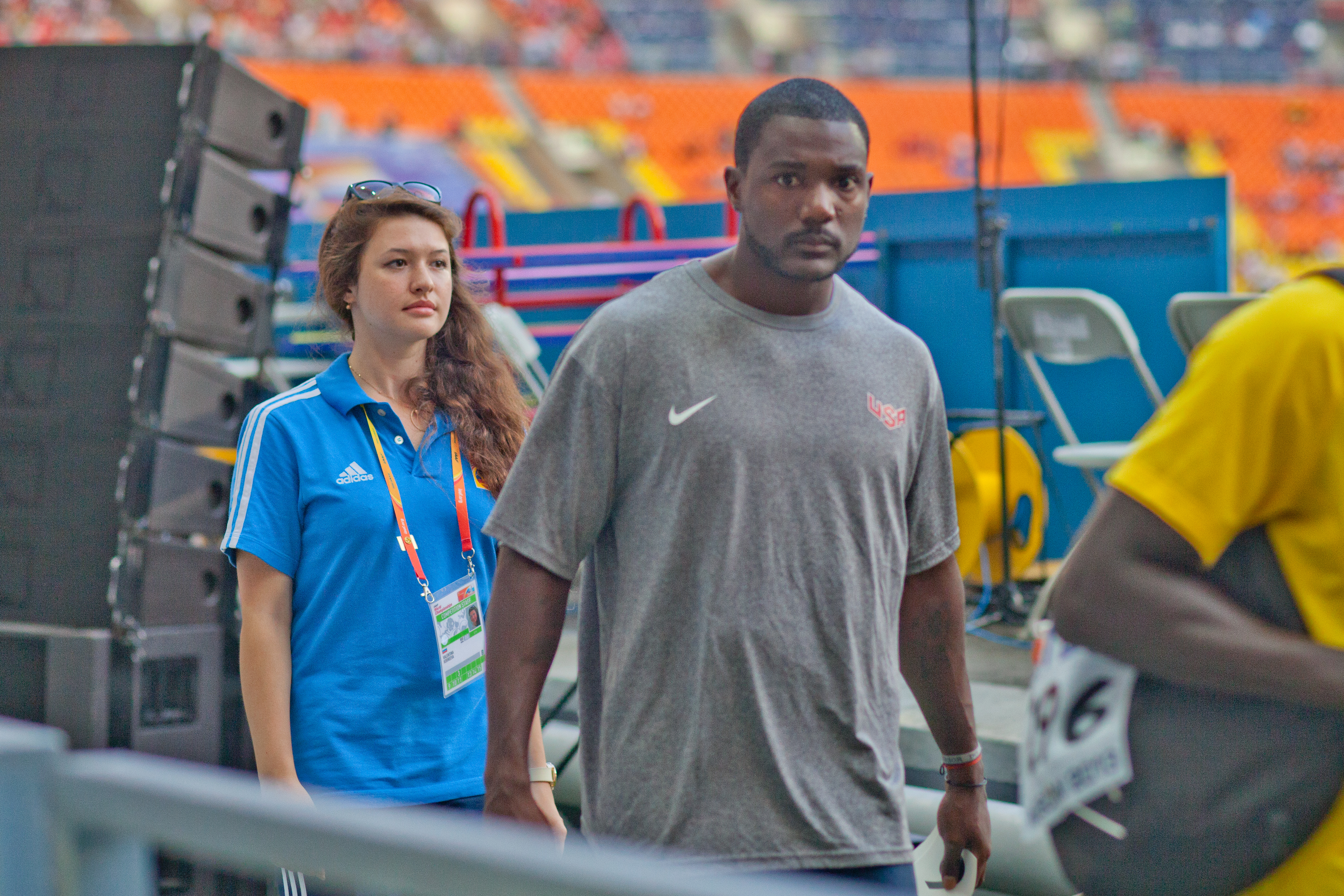 Justin Gatlin during 2013 World Championships in Athletics in Moscow.